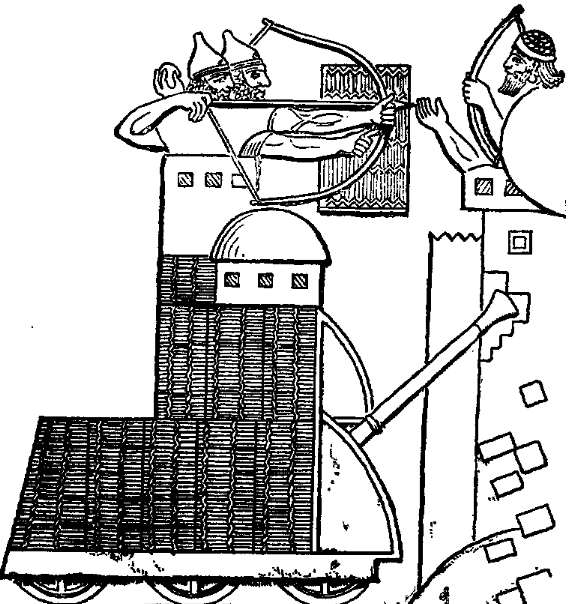 An illustration from the Encyclopaedia Biblica, a 1903 publication which is now in the public domain. Fig. 3 for article "Siege". Image of an Assyrian Siege Tower